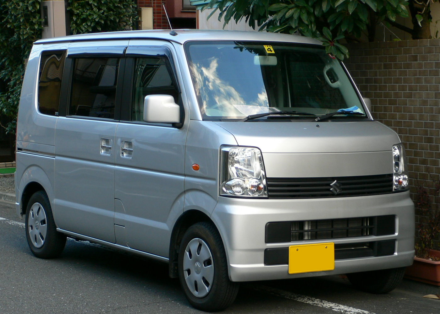 The 5th generation Suzuki_Every_Wagon (スズキ・エブリィ) (2005 - )